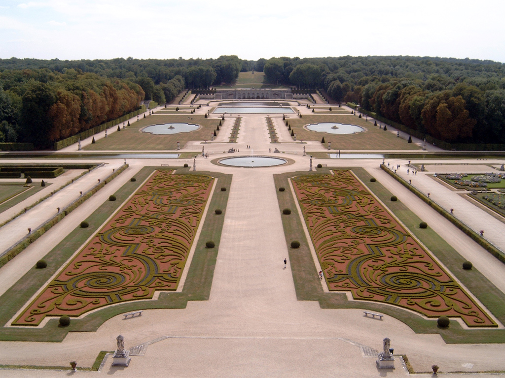 Garden of Vaux-le-Vicomte as seen from the chateau's dome